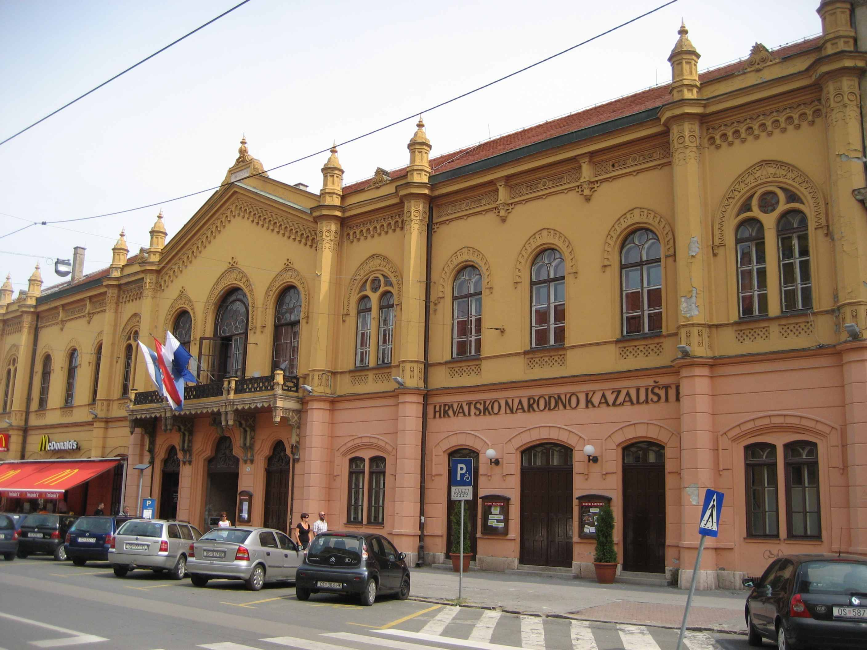 Croatian National Theatre, Osijek